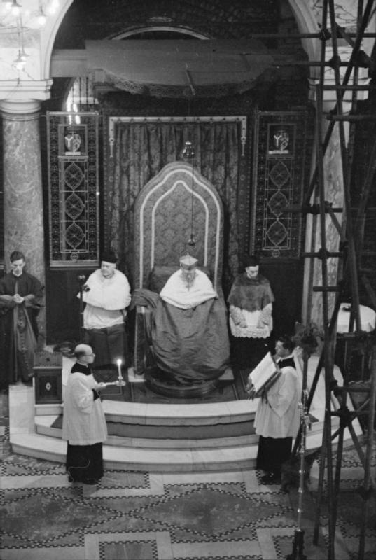 Allied Service at Westminster Cathedral, 1941 At the conclusion of a special week of prayer for France, a High Mass was celebrated at Westminster Cathedral, for France and the occupied countries. The service was led by Cardinal Hinsley.